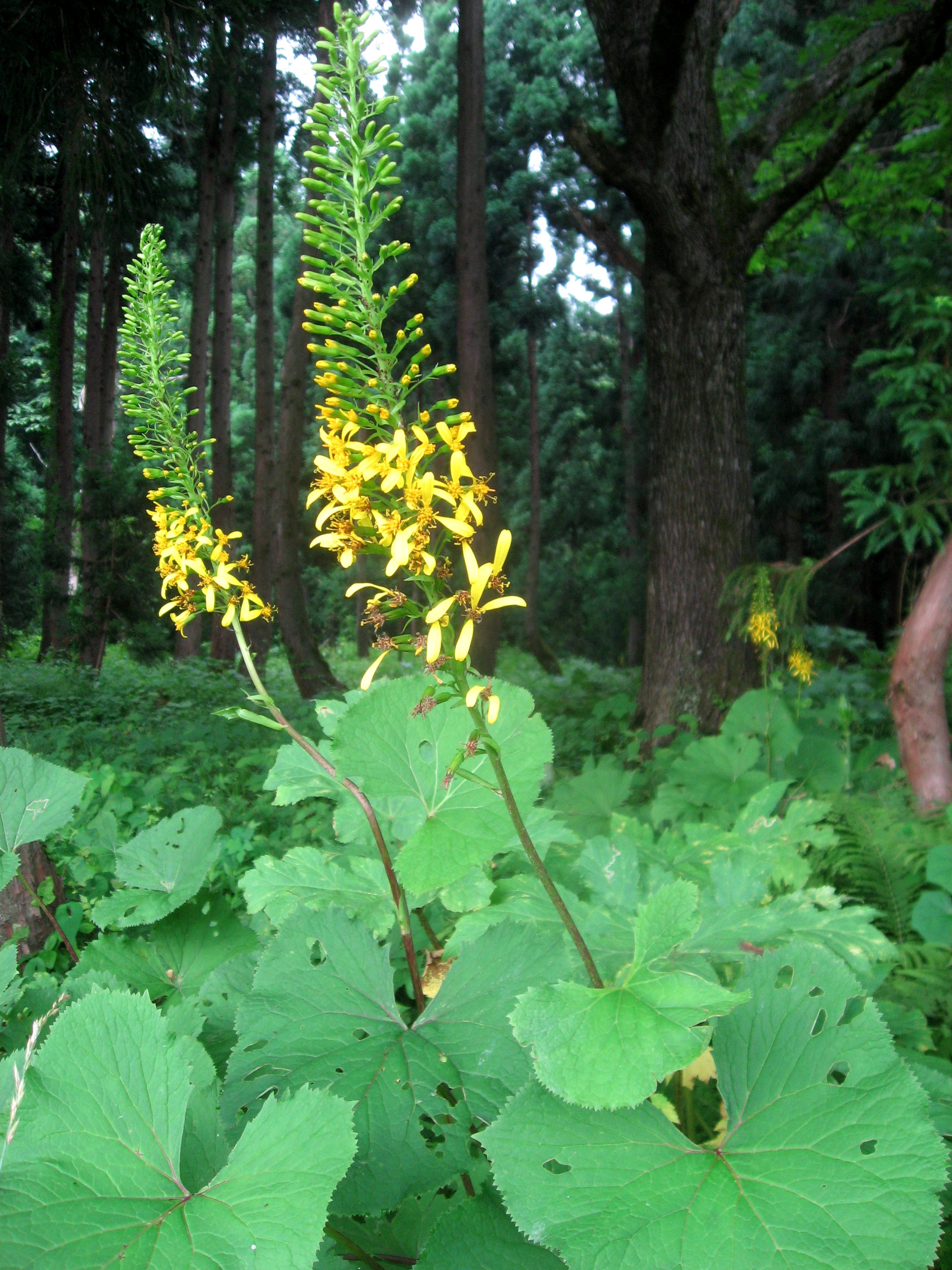 Ligularia stenocephala,Aizu area,Fukushima pref.,Japan